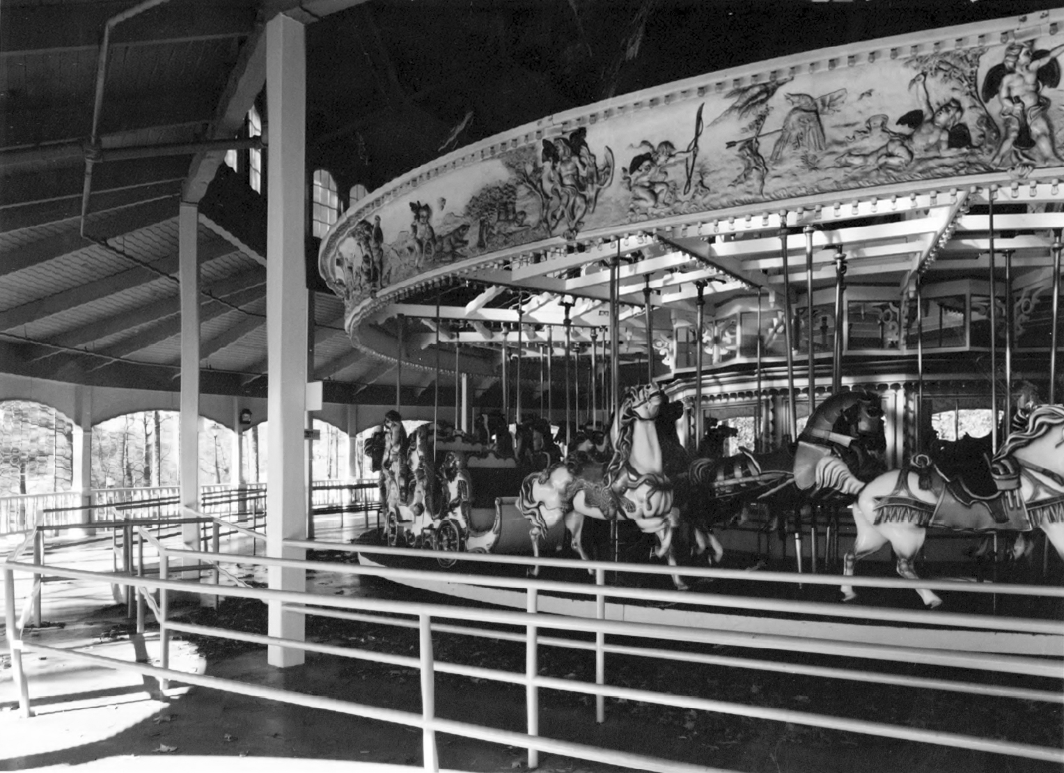 Riverview Carousel. View of fiberglass rounding boards, five row